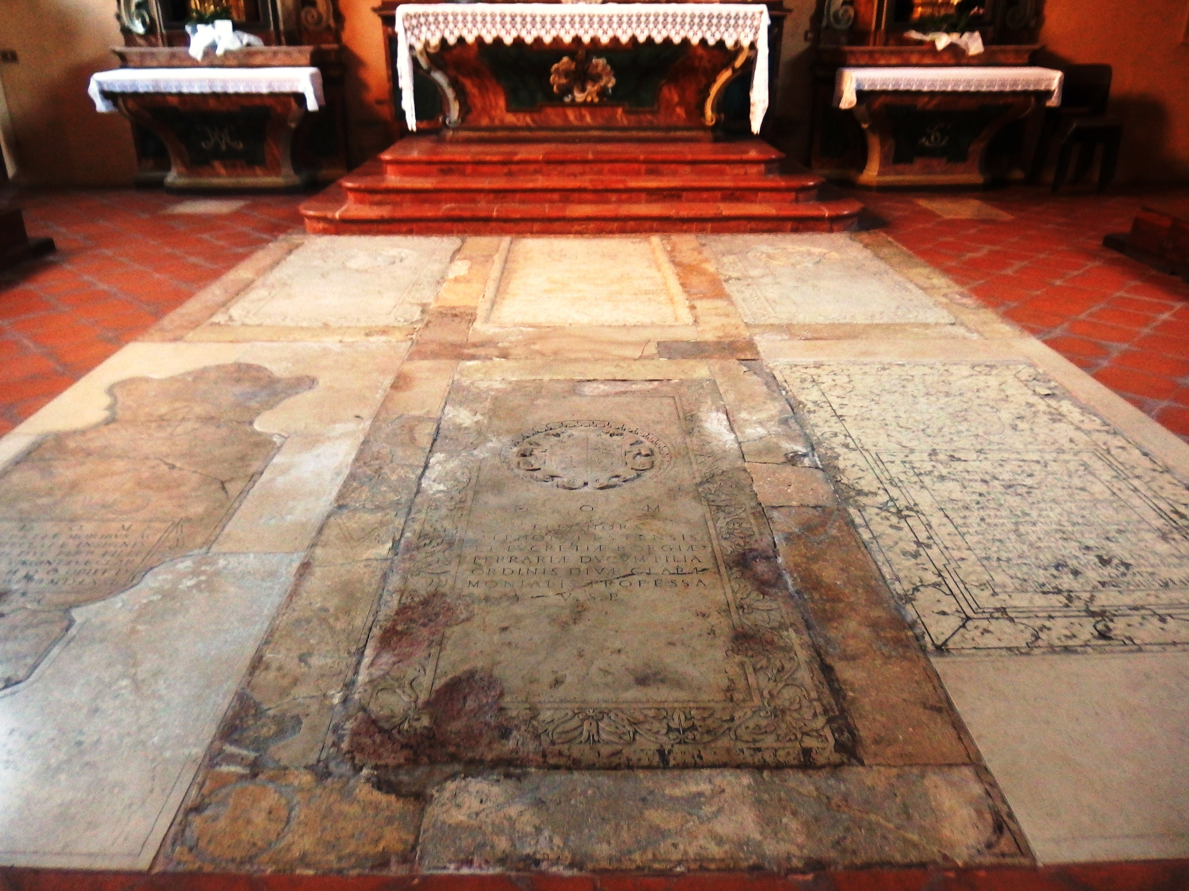 Ferrara, Italy. Monastery of Corpus Christi, gravestones.